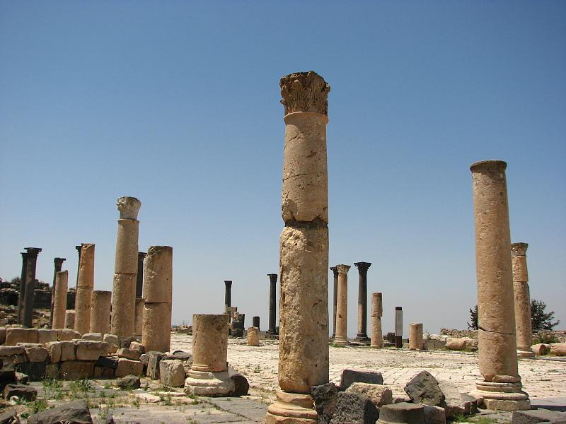 Gadara – Umm Qais (Arabic: أم قيس, also transliterated as Umm Qays) is a town in northern Jordan near the site of the ancient town of Gadara. It is situated in the extreme north-west of the country, where the borders of Jordan, Israel and Syria meet, perched on a hilltop (378 metres above sea level), overlooking the sea of Tiberias, the Golan heights and the Yarmuk gorge. Umm Qais is in Jordan's Irbid Governorate and belongs to the Bani Kinanah Department.